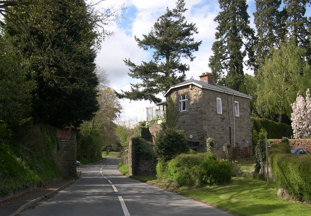 Lyonshall railway station Station and former rail overbridge on the GWR branch from Eardisley to Titley Junction. No trains have passed since 1st July 1940, when the line closed for a second and final time.